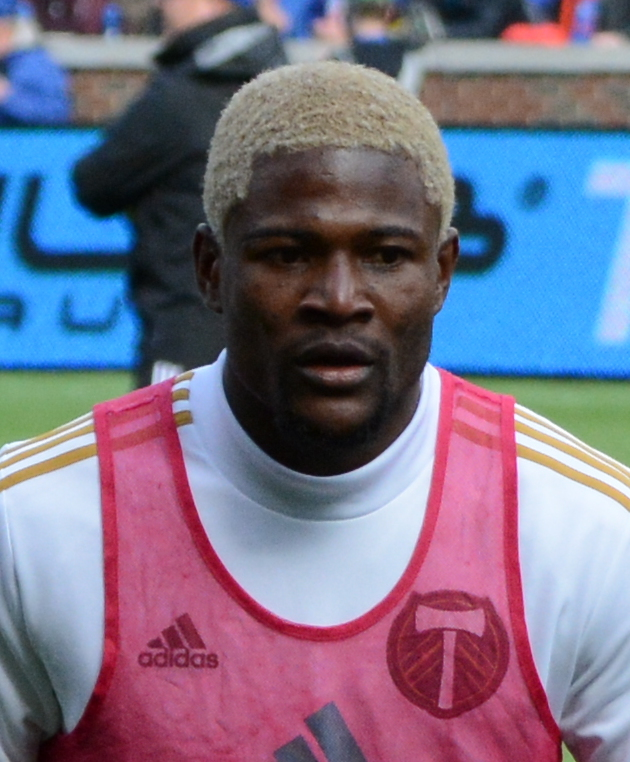 Taken during FC Cincinnati's Major League Soccer regular season home opener match against Portland Timbers at Nippert Stadium in Cincinnati, USA on March 17, 2019.